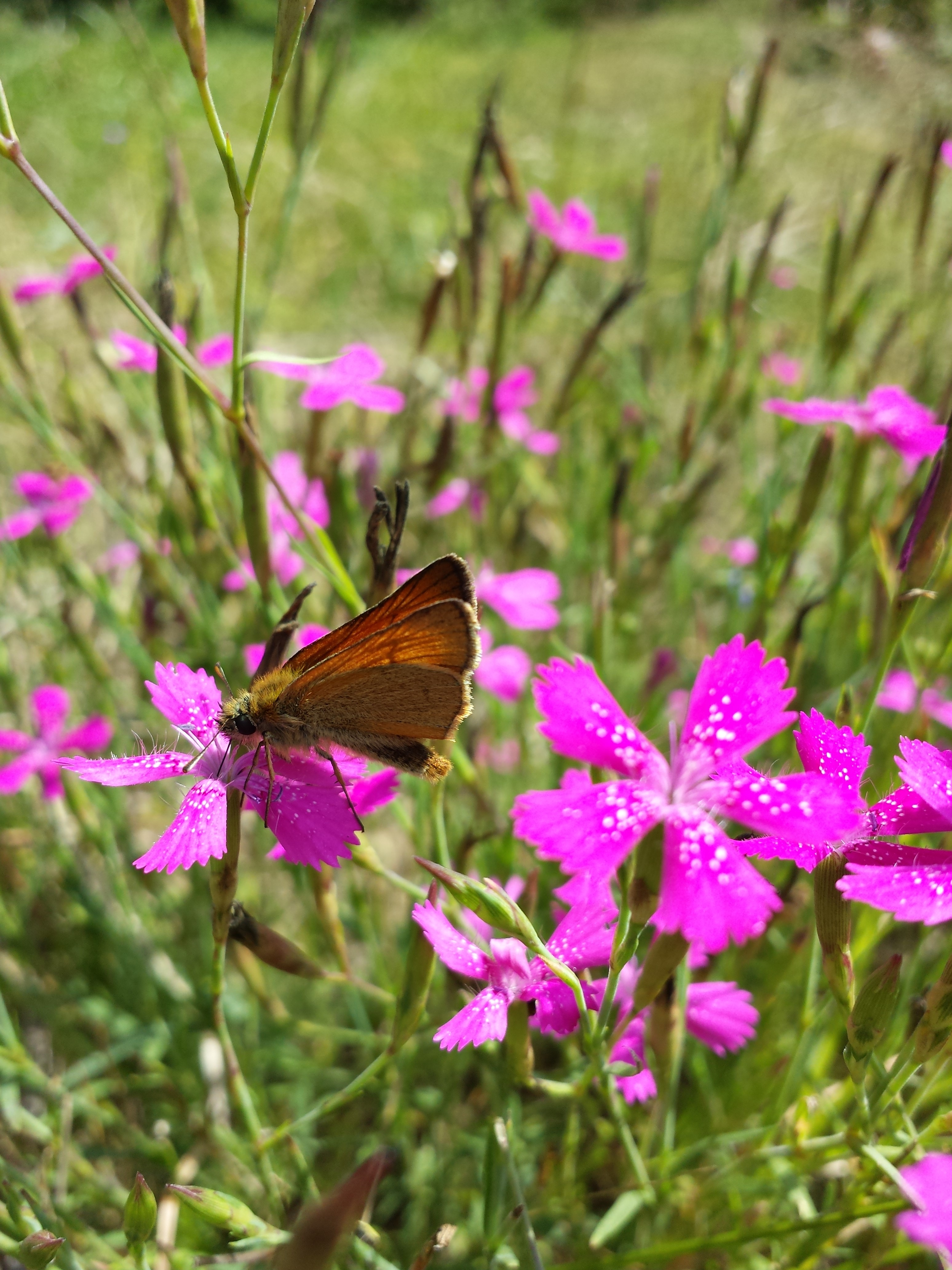 Habitus/flowers Taxon: Dianthus deltoides (sensu Fischer et al. EfÖLS 2008 ISBN 978-3-85474-187-9) Location: near Rappottenstein, district Zwettl, Lower Austria - ca. 650 m a.s.l. Habitat: wayside/slope